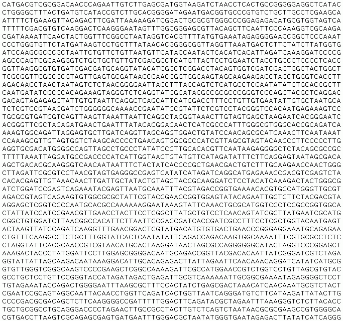 Part of DNA sequence - prototypification of complete genome of virus - 5418 nucleotides